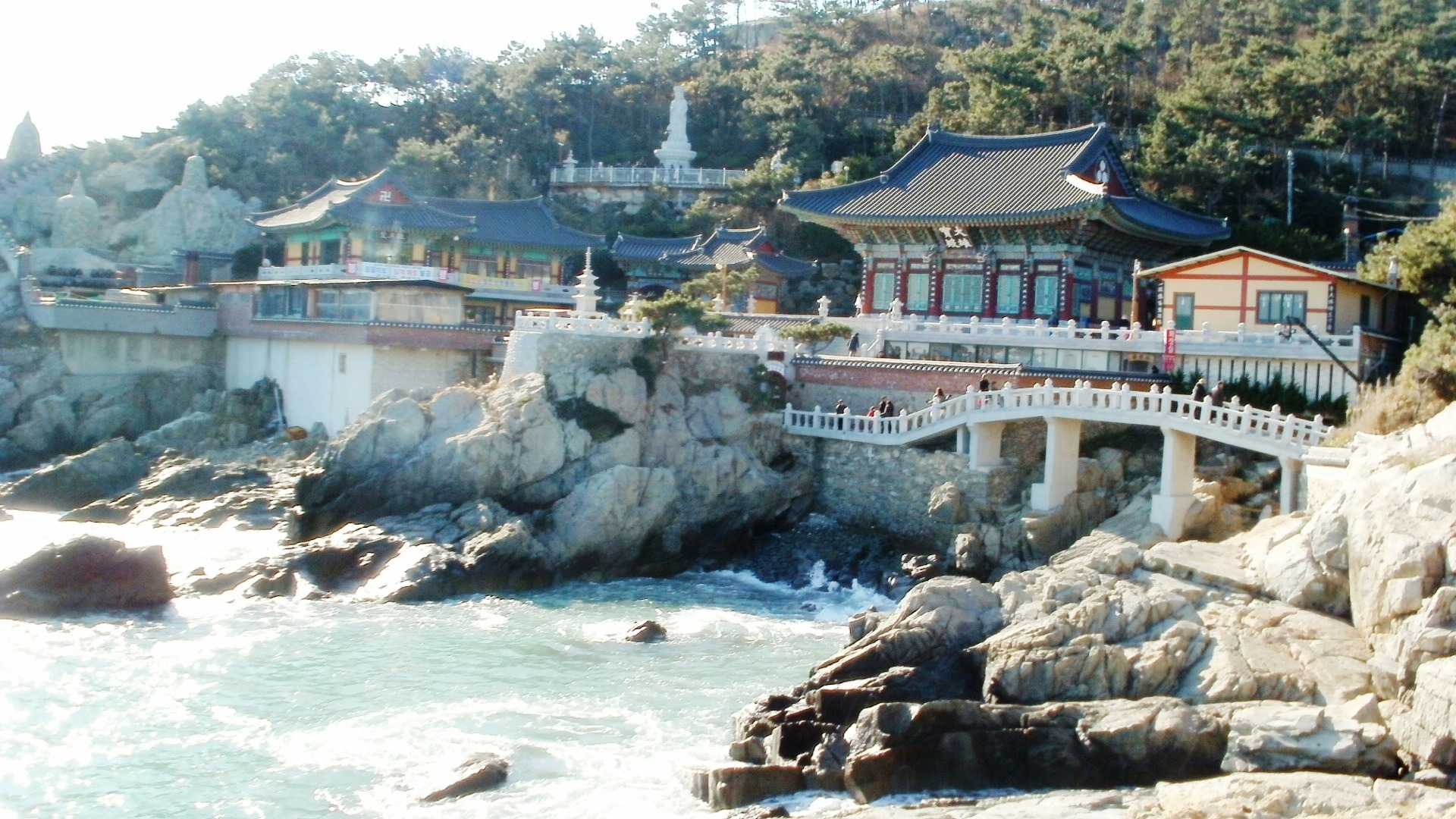 Haedong Yonggungsa Temple, Busan, South Korea. Photograph from Flickr; author Anna L Martin; license of cc-by-2.0.